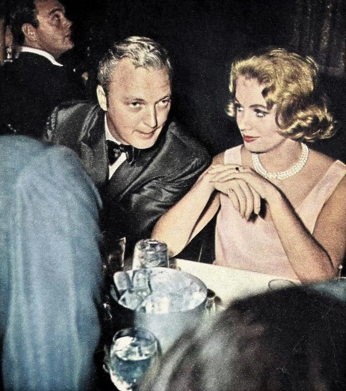 Jack Cassidy and Shirley Jones, 1961